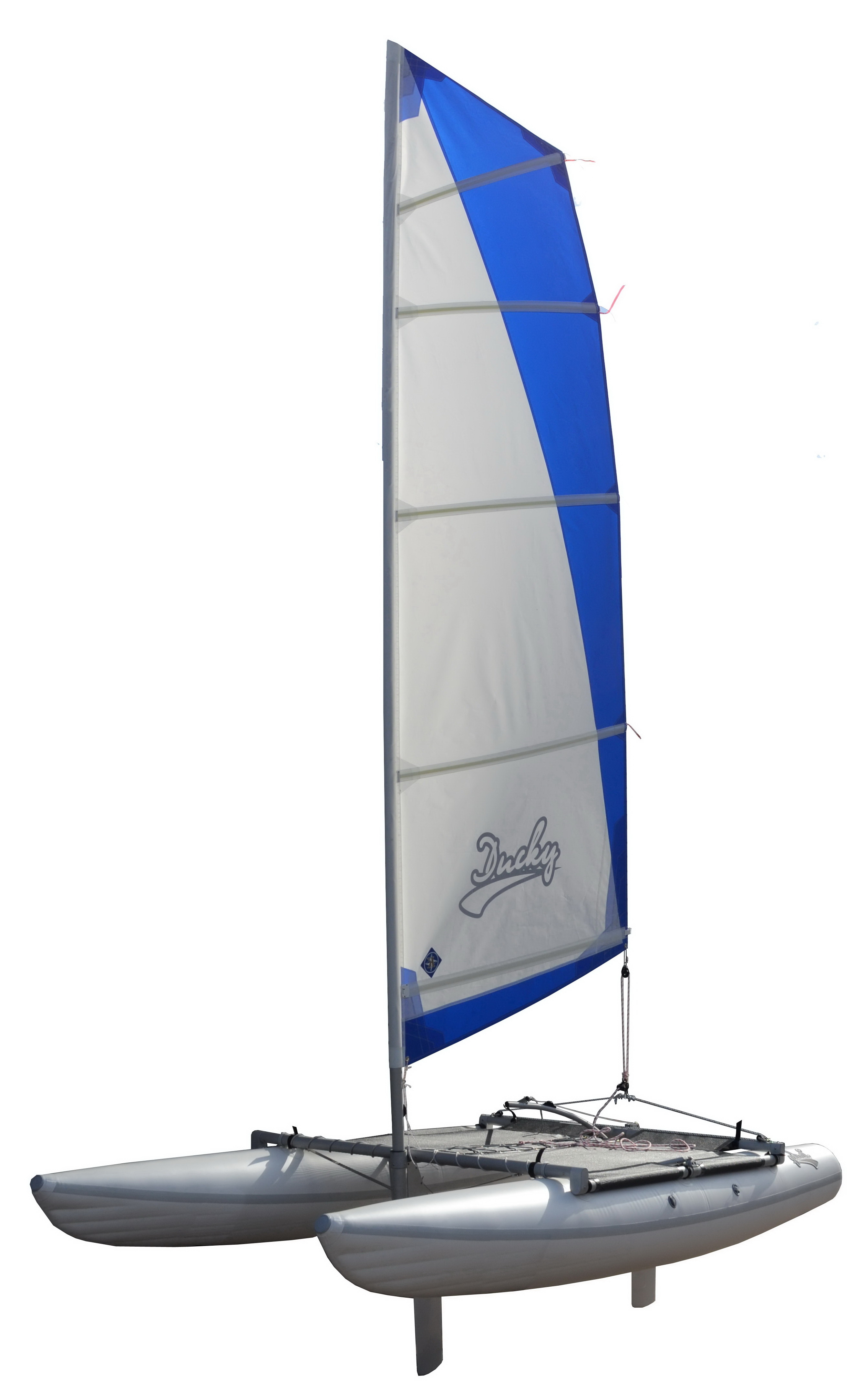 Inflatable sail catamaran Ducky13